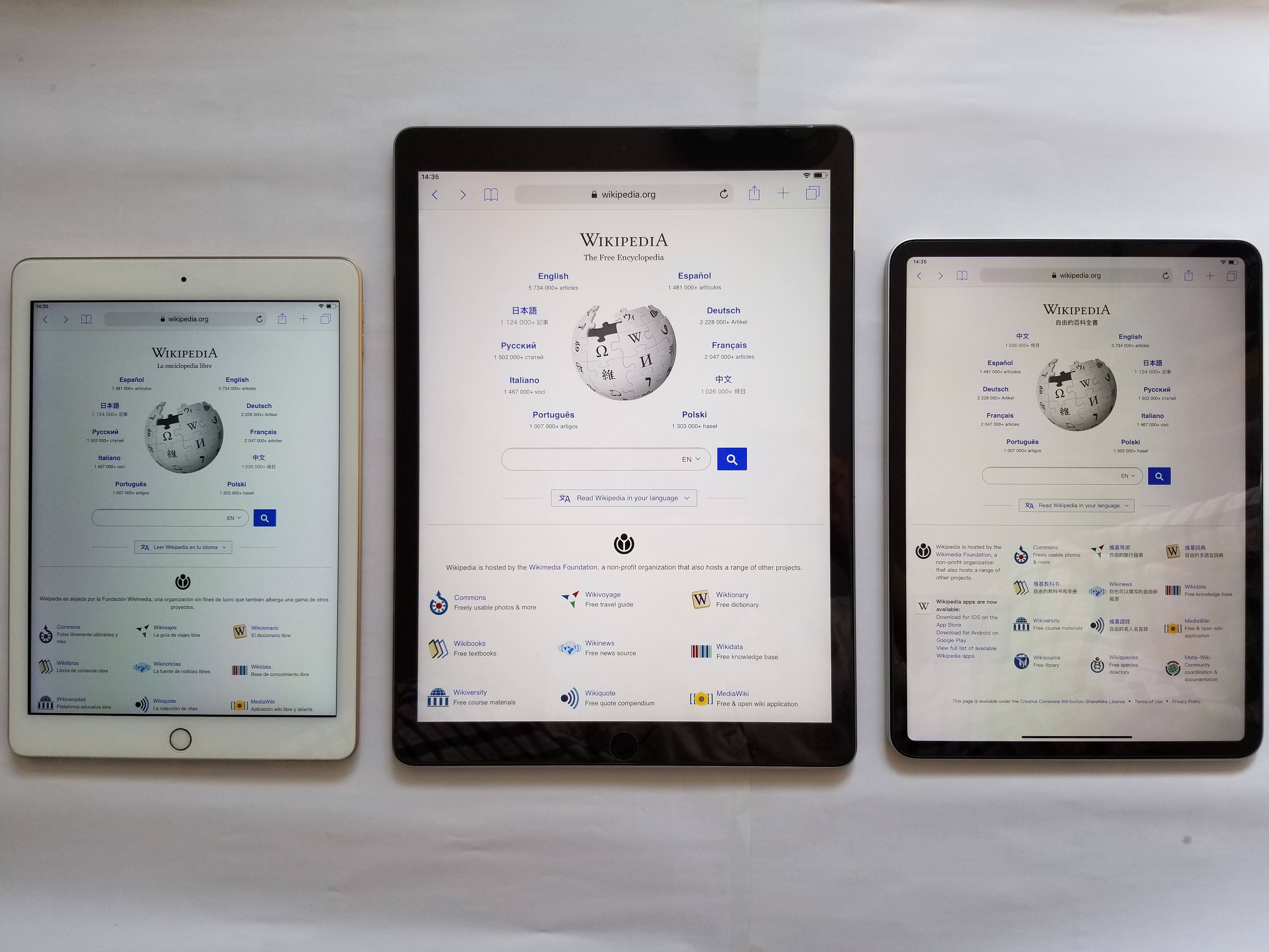 iPad 9.7″ (gold) iPad Pro 12.9″ (space gray) iPad Pro 11″ (silver)